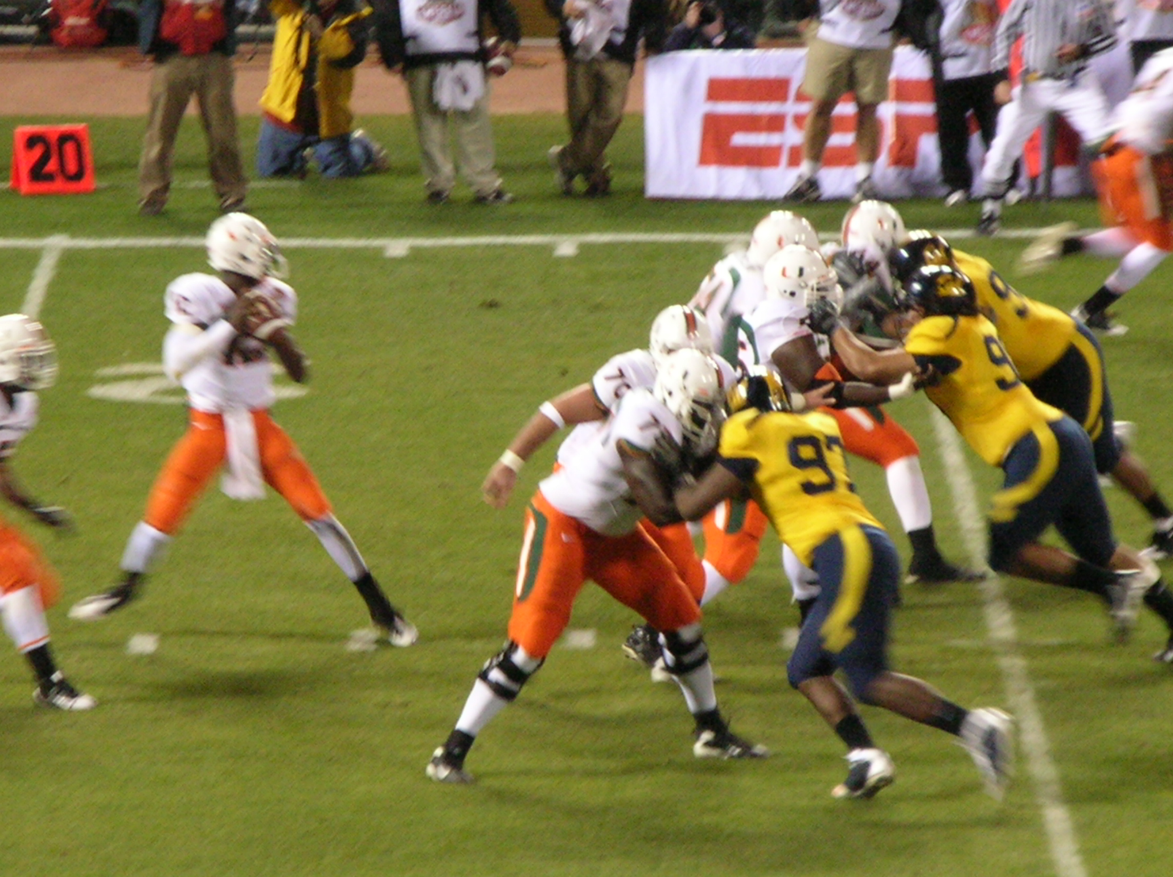 Miami on offense at the 2008 Emerald Bowl between the California Golden Bears and Miami Hurricanes. The Golden Bears won 24-17.